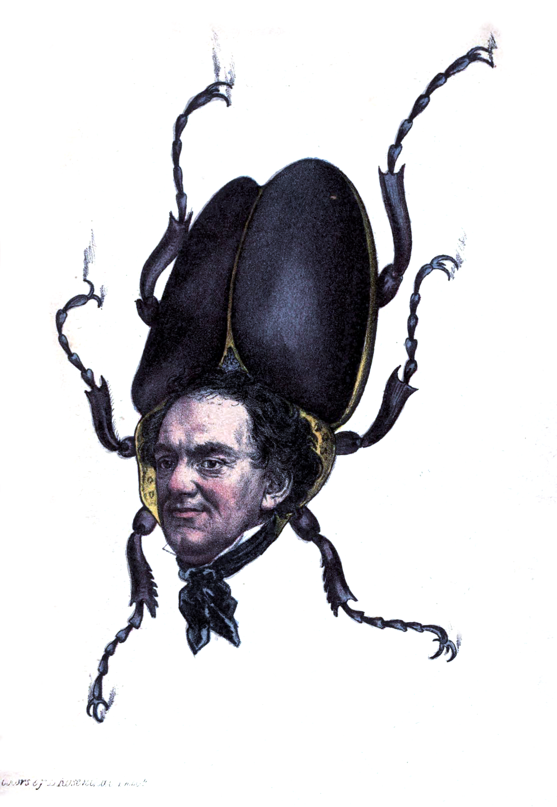 P. T. Barnum as the Hum Bug